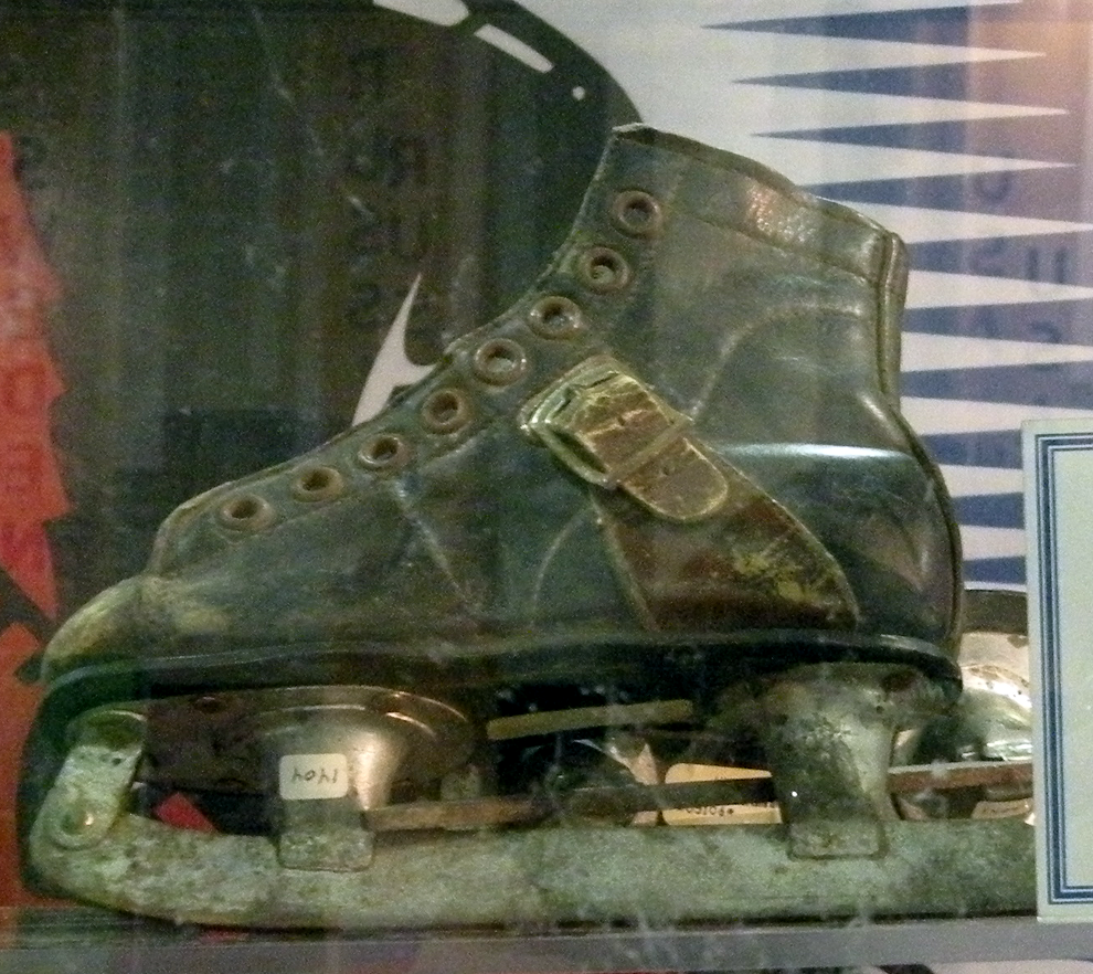 Canadian ice hockey player Wayne Gretzky's first pair of skates, worn when he was age 3. Part of a Hockey Hall of Fame display at Calgary during the 2012 World Junior Hockey Championships.